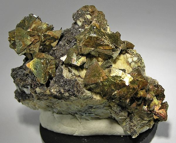 Chalcopyrite Locality: Ballard Mine, Baxter Springs, Picher Field, Tri-State District, Cherokee County, Kansas, USA (Locality at ) Size: 6.9 x 4.8 x 2.8 cm. An old Treece chalcopyrite specimen out of the Feist Collection, with very sharp, bright brassy crystals to one centimeter. In one place is a beautiful complex cluster of interpenetrating crystals. The crystals are nicely isolated on the matrix. Probably collected prior to the 1960s.